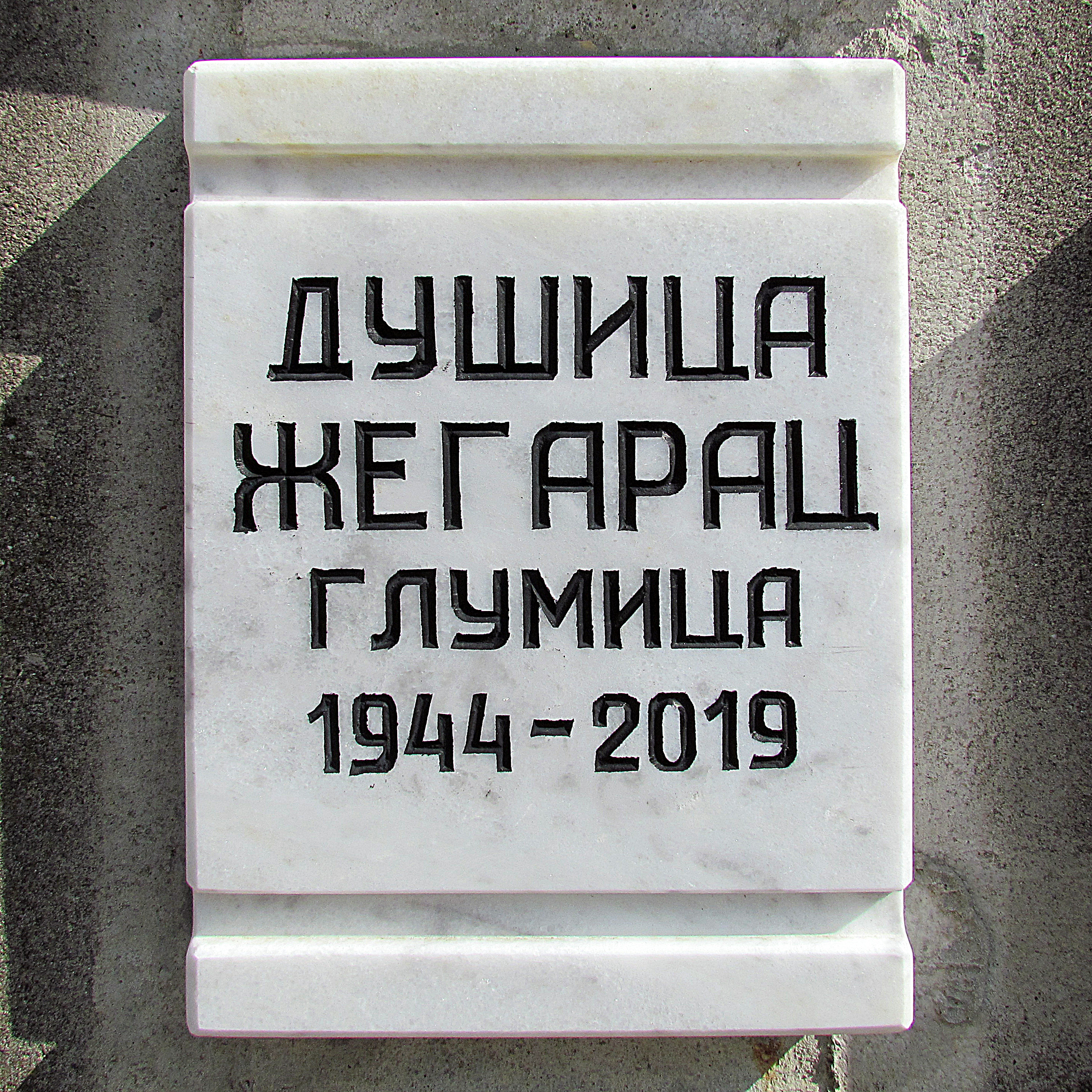 Tombstone of Dušica Žegarac, Serbian actress, Belgrade New Cemetery